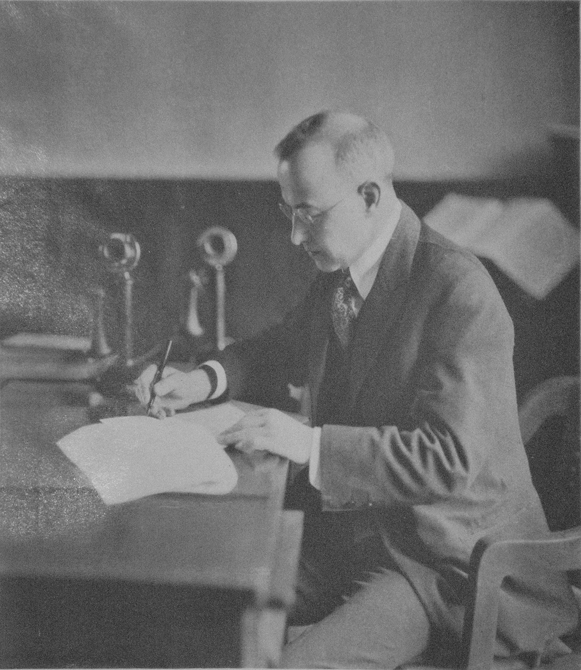 University of Washington President (1915–1926) Henry Suzzallo (after whom Suzzallo Library is named).